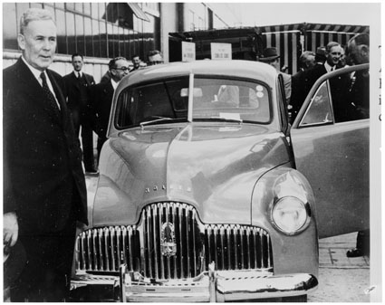 Title : Industry - Motor vehicles - Prime Minister of Australia, Mr Ben Chifley, at the launching of the first mass-produced Australian car at the General Motors-Holden factory, Fisherman's Bend, Melbourne [photographic image]. 1 photographic negative: b&w, acetate Image no. : A1200, L84254